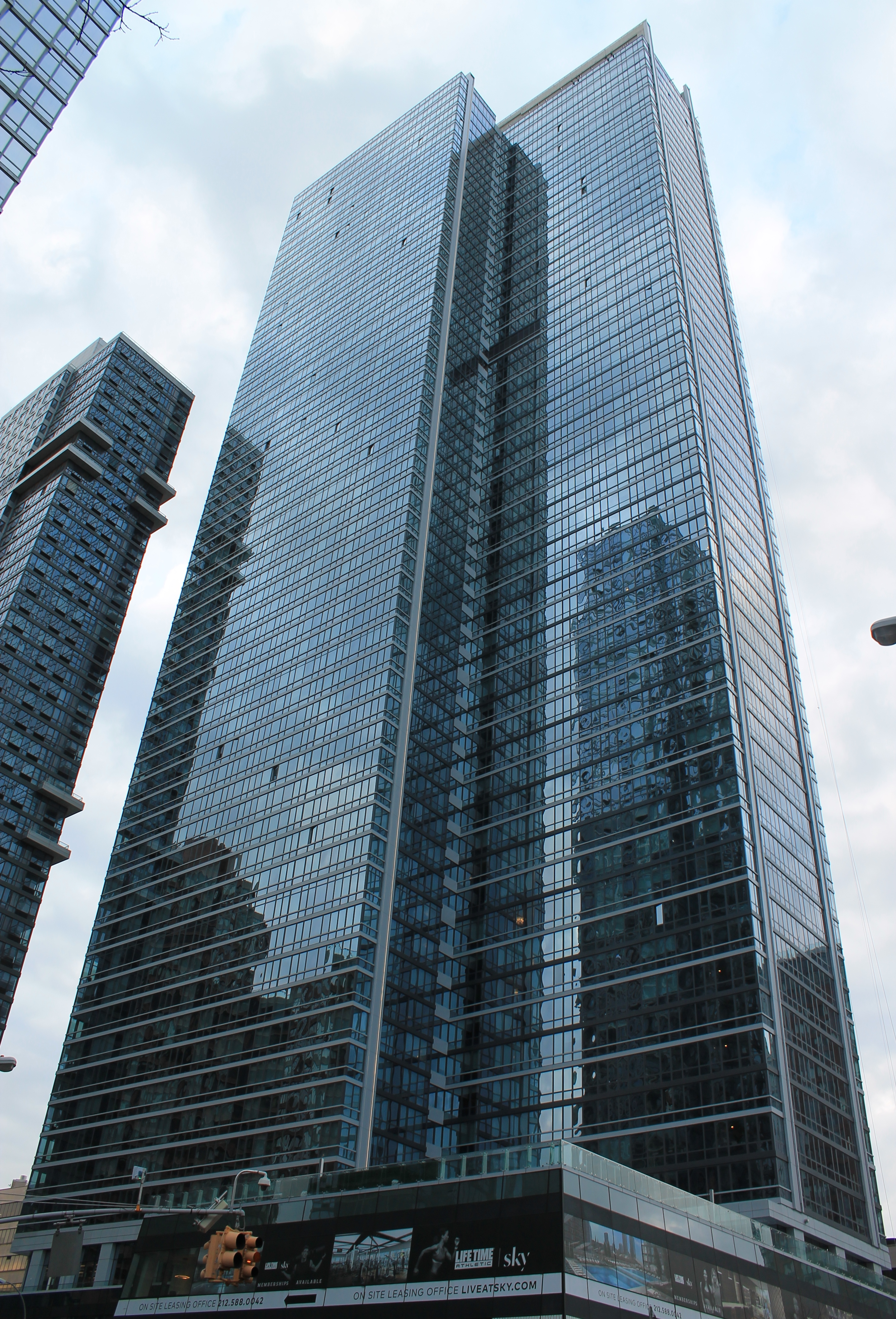 605 West 42nd Street seen on 24 March 2017.